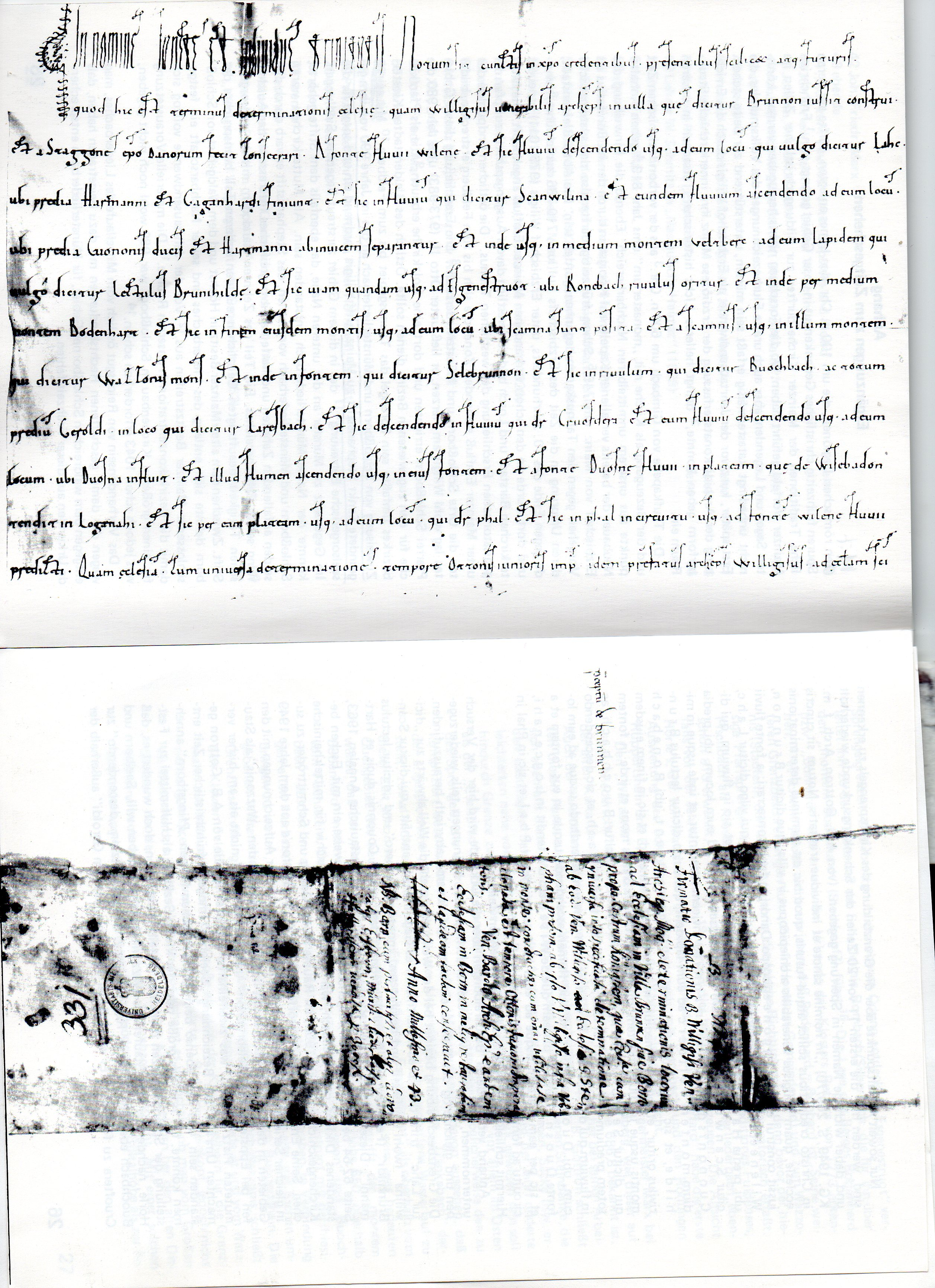 Original dokument from Bishop Bardo from 1043